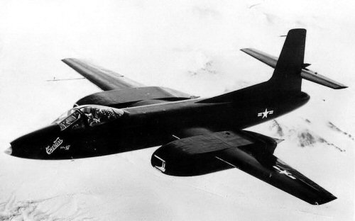 Curtiss XF-87 fighter prtotype